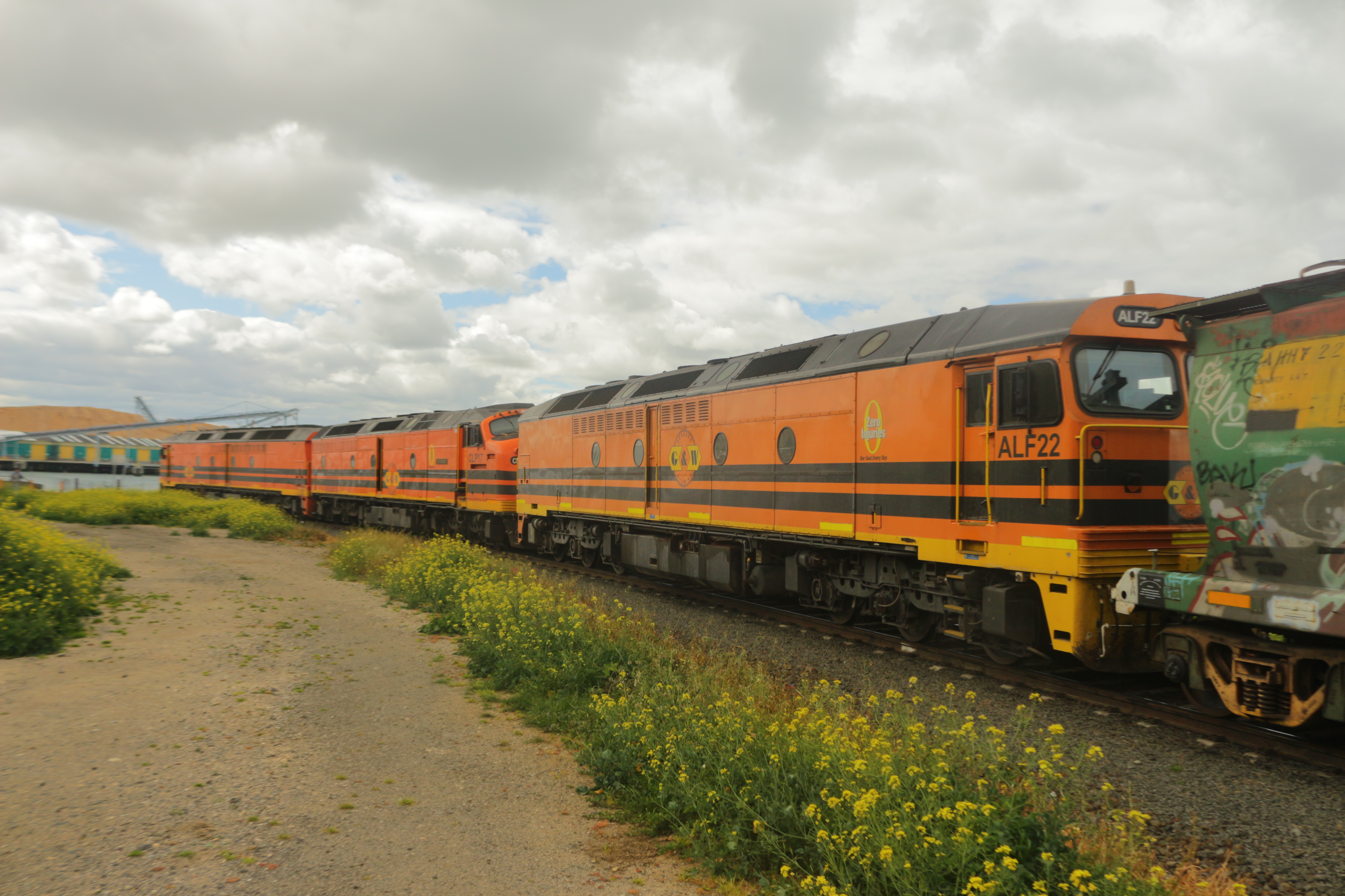 Genesee & Wyoming ALF22 (Ex AL23) at North Geelong Grain Loop 24/9/2019